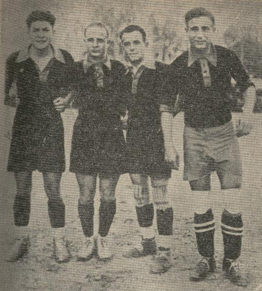 AEK players: Ilias Iliaskos, K. Dimopoulos, Kostas Negrepontis and Emmanouilidis (Kolokatsis)